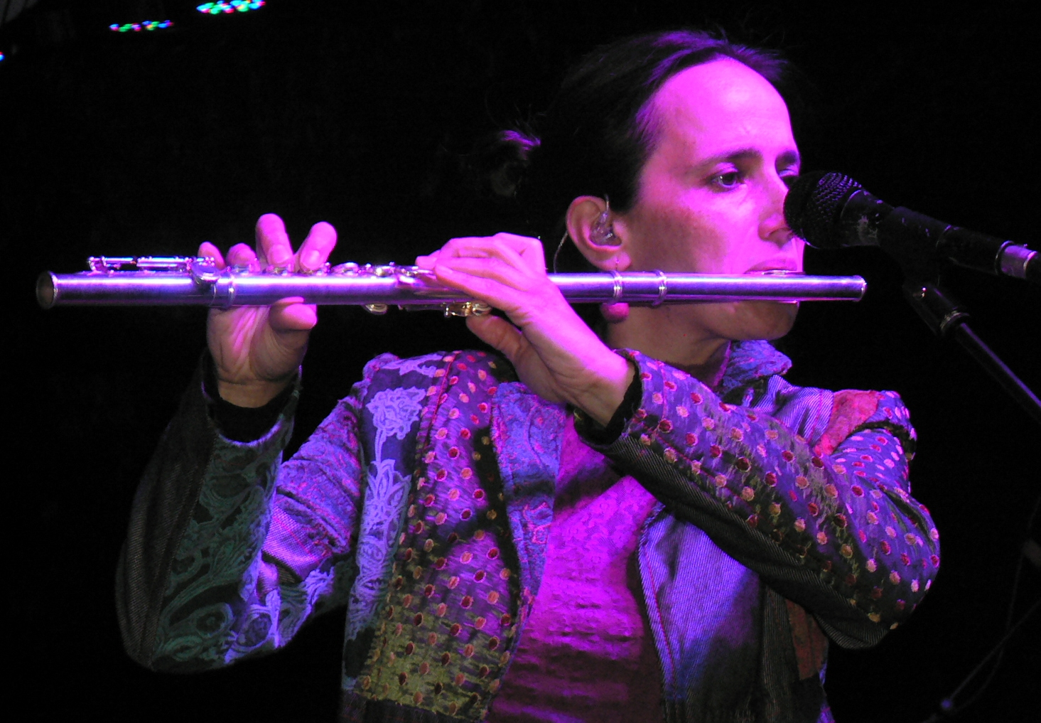 Bognár Szilvia (2015)